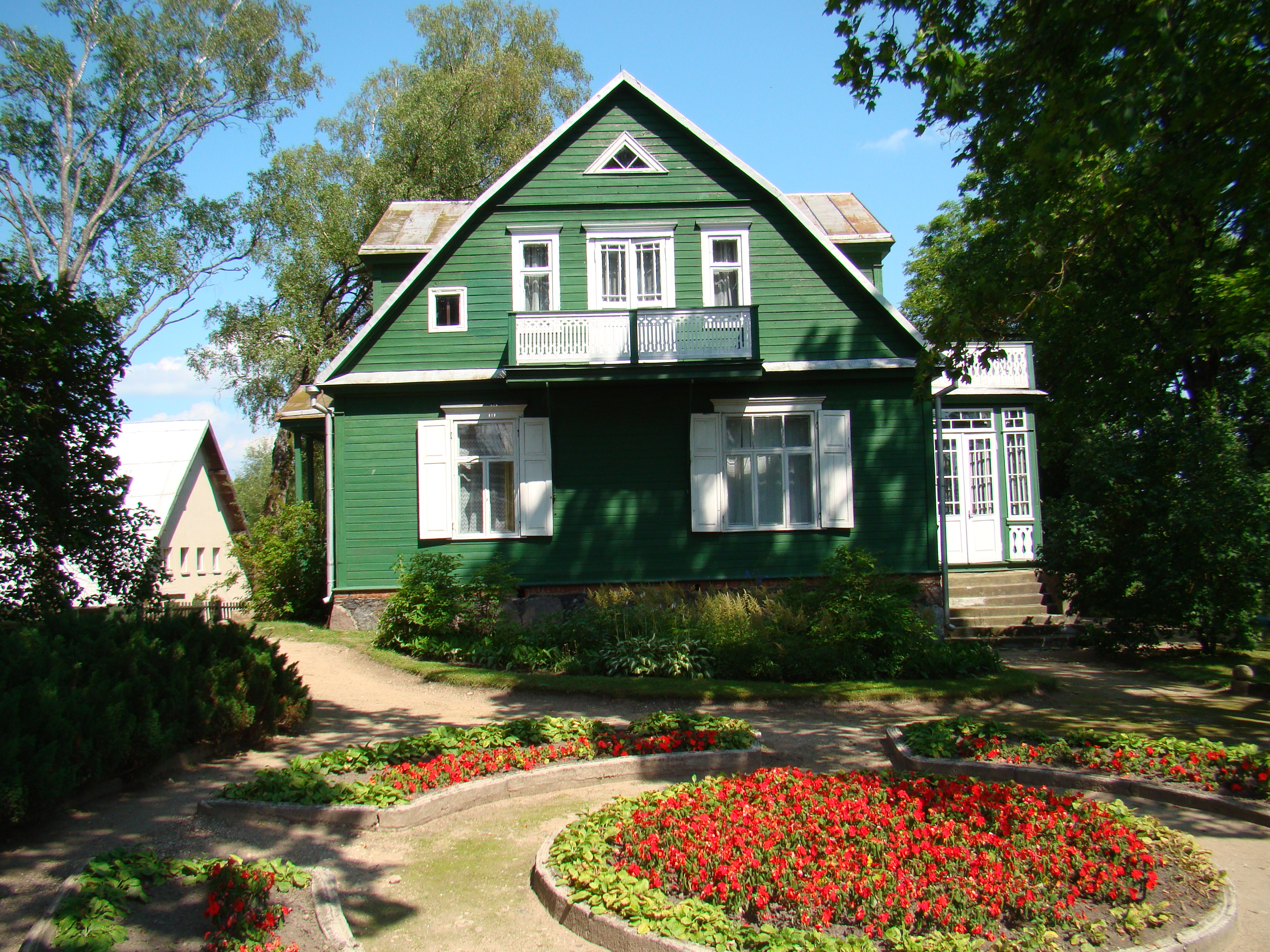 Memorial Museum A.Baranauskas end A.Vienuolis-Žukauskas, Anykščiai, Lithuania